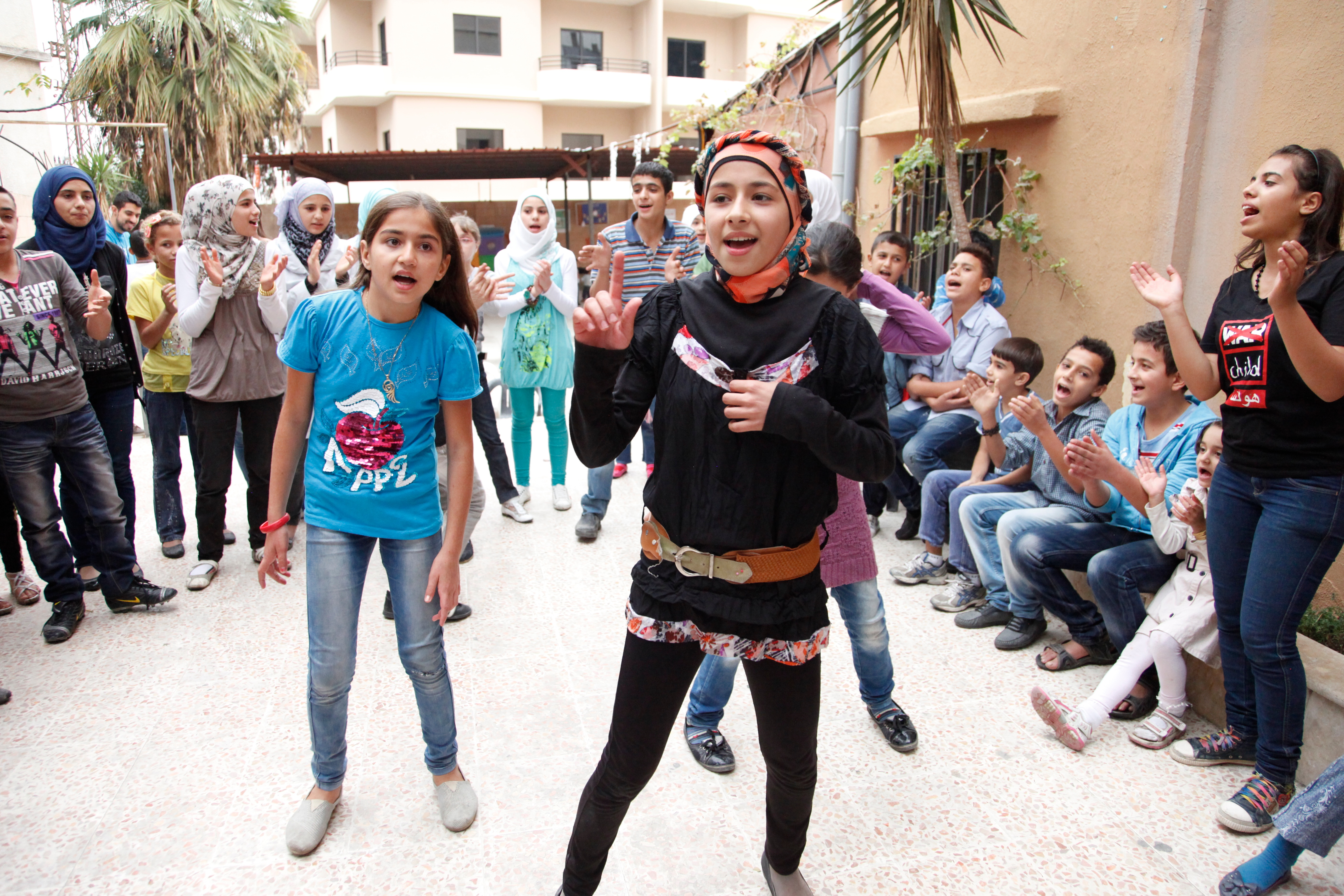 Aziza*, aged 12, and her family were displaced inside Syria for 2 years because of the conflict. Eventually they crossed the border into Lebanon, and now she's back at school, with the help of War Child, UNICEF and UK aid. "I feel so happy that I'm now learning again", says Aziza. She's learning English, French and Arabic, and is also receiving psycho-social support in the form of drawing and dance lessons to help her forget the conflict - at a centre in northern Lebanon that was set up with support from the UK. As part of the ‘Lost Generation’ initiative, the British government is currently match-funding War Child's Children of Syria appeal and UNICEF's Syria Winter Appeal, to help thousands of Syrians through the winter. If you're a UK citizen and you donate to either of these appeals, your donation will be matched by the UK government pound for pound, to help thousands of children like Aziza. The UK will also provide winter tents, warm clothing and heaters as part of an allocation of nearly £60 million to help hundreds of thousands of Syrians, especially children, cope with the onset of winter. To find out more about how the UK is helping those affected by the conflict in Syria, please visit: Picture: Russell Watkins/Department for International Development Name has been changed to protect identity